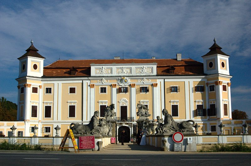 Milotice Castle, Czech republic